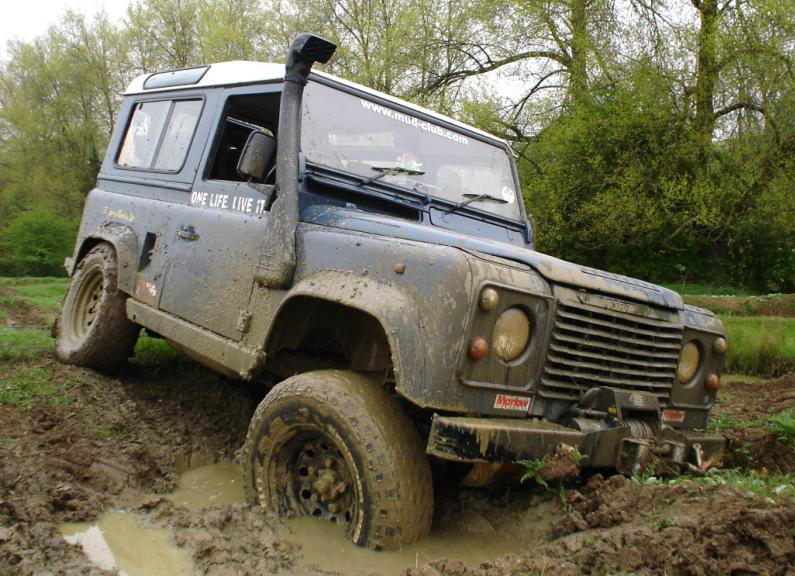 Landrover Defender 90 Off roading (Stuck)